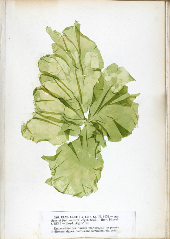 « Ulva lactuca » = Ulva lactuca